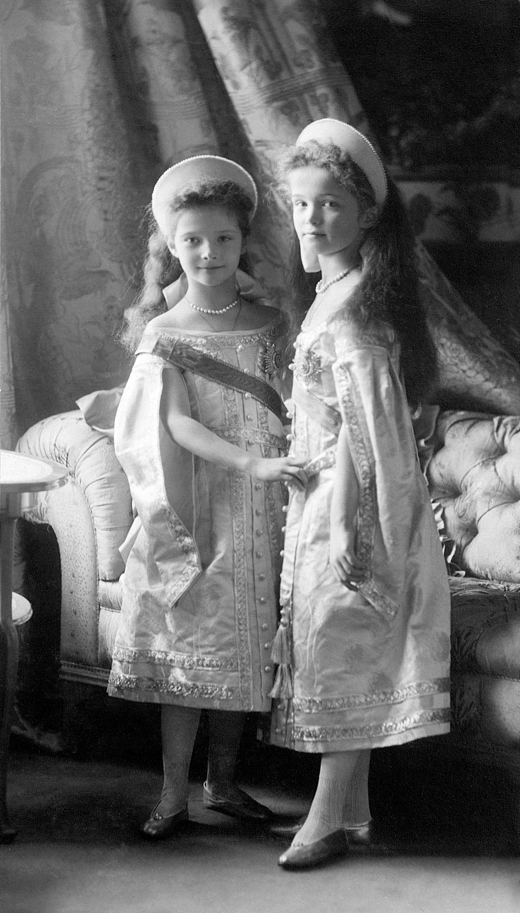 Grand Duchesses Tatiana and Olga Nikolaevna of Russia in court gown